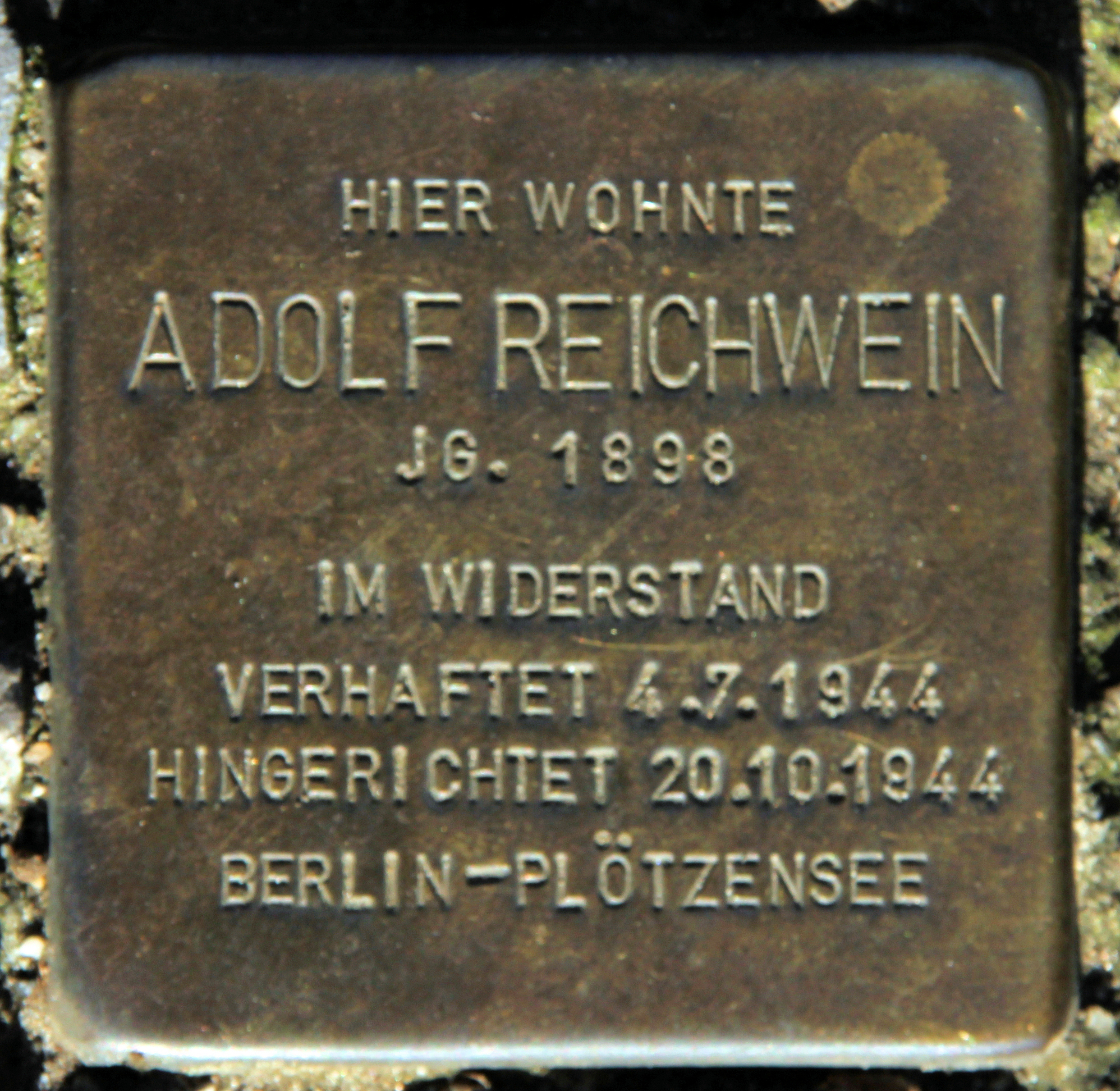 "Stolperstein" (stumbling block), Adolf Reichwein, Hohenzollernstraße 21, Berlin-Wannsee, Germany